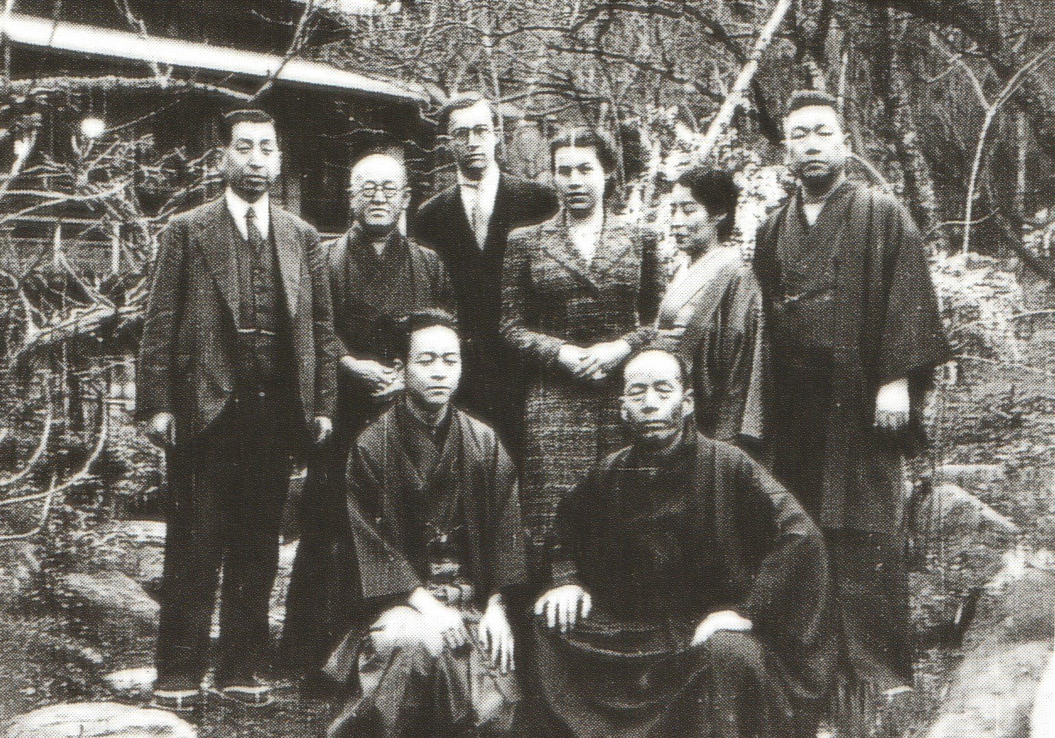 Itō Shinsui and guests in front left side: Kawamatsu Shirô, right side Watanabe Shôsaburô in the back from left: Moriyama, Kawase Hasui, American couple, Itō and his wife